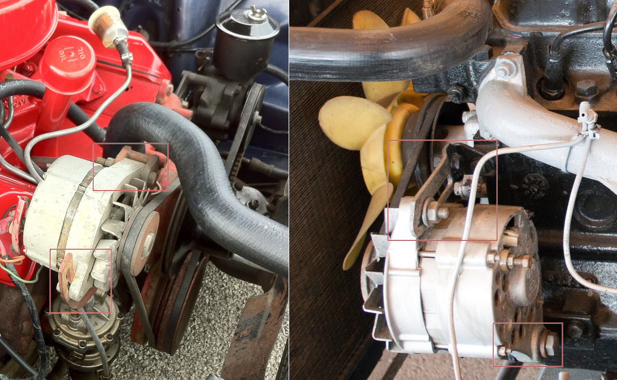 Belt tensioners of automobile alternators. The alternator is guided by a hinge, and its position is adjusted by a bolt sliding in an oblong slot.